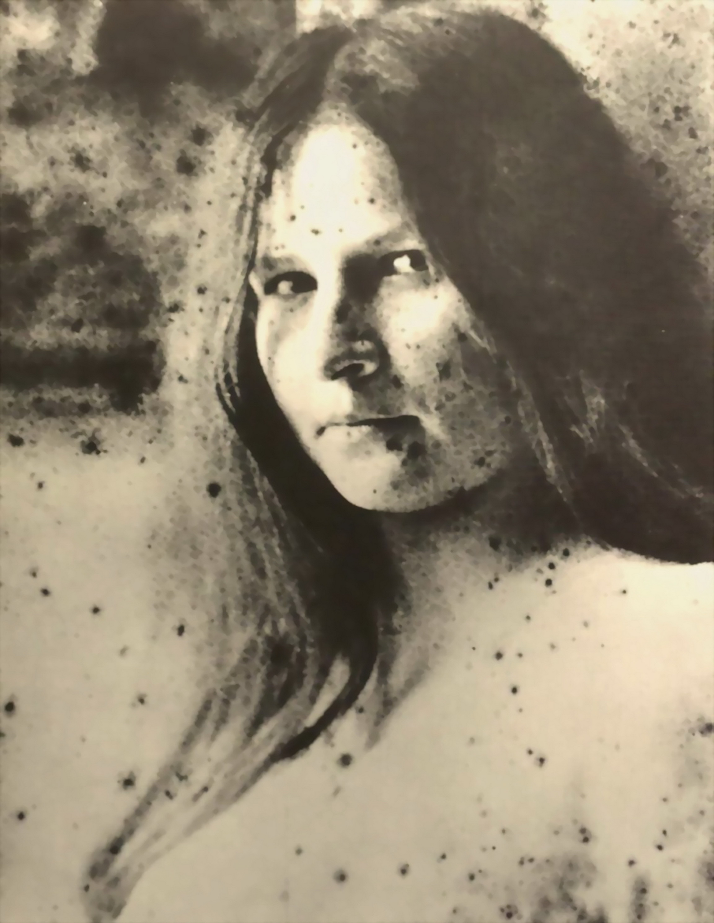 Grete Trakl portrait